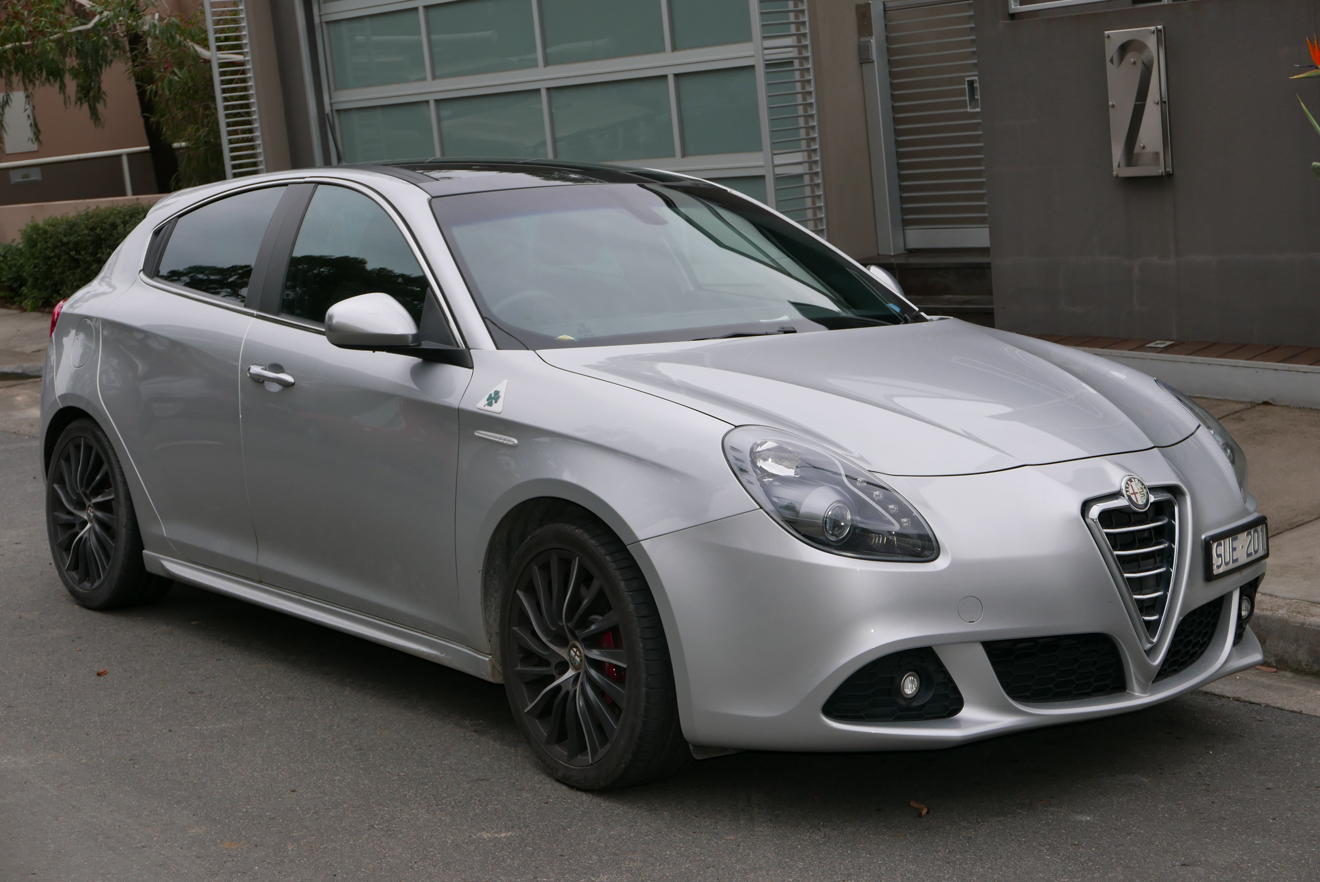 2011 Alfa Romeo Giulietta (940) QV hatchback. Photographed in Hawthorn, Victoria, Australia. Vehicle registration enquiry results Jurisdiction Victoria Registration SUE201 Chassis code ZAR94000007030430 Engine code 940A10006539216 Compliance date 2011-01 Year of manufacture 2011